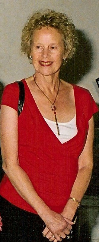 Aeronwy Thomas: poetry reading, Torino, Italy